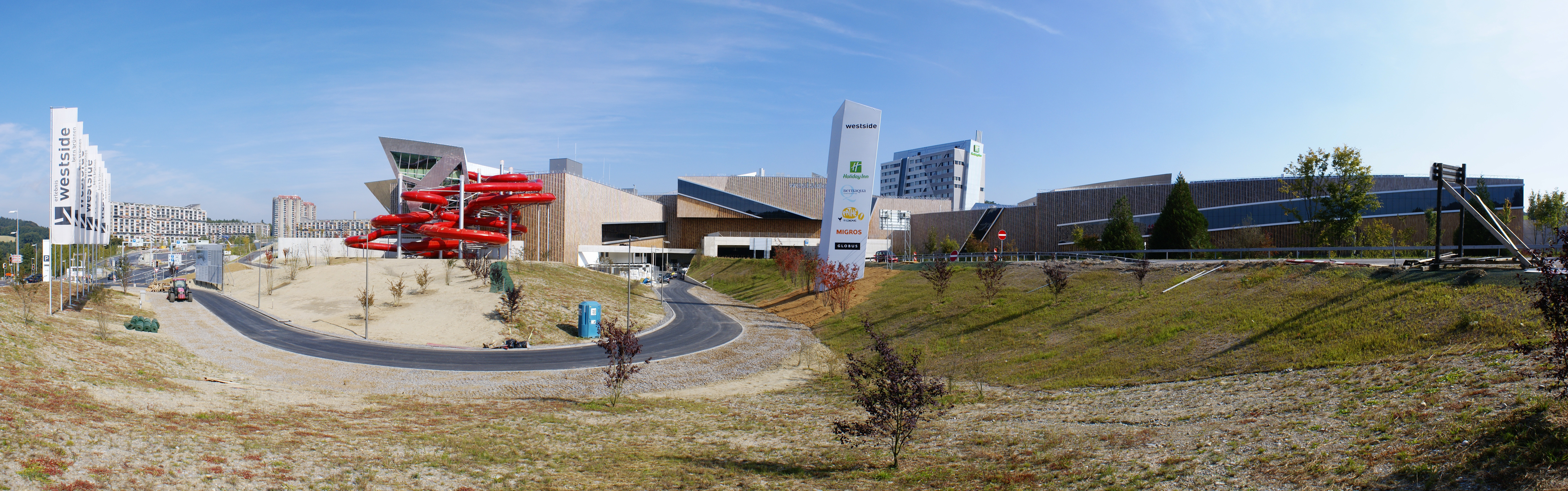 Westside Shopping and Leisure Complex by Daniel Libeskind under construction in the Brünnen neighbourhood, Berne, Switzerland.